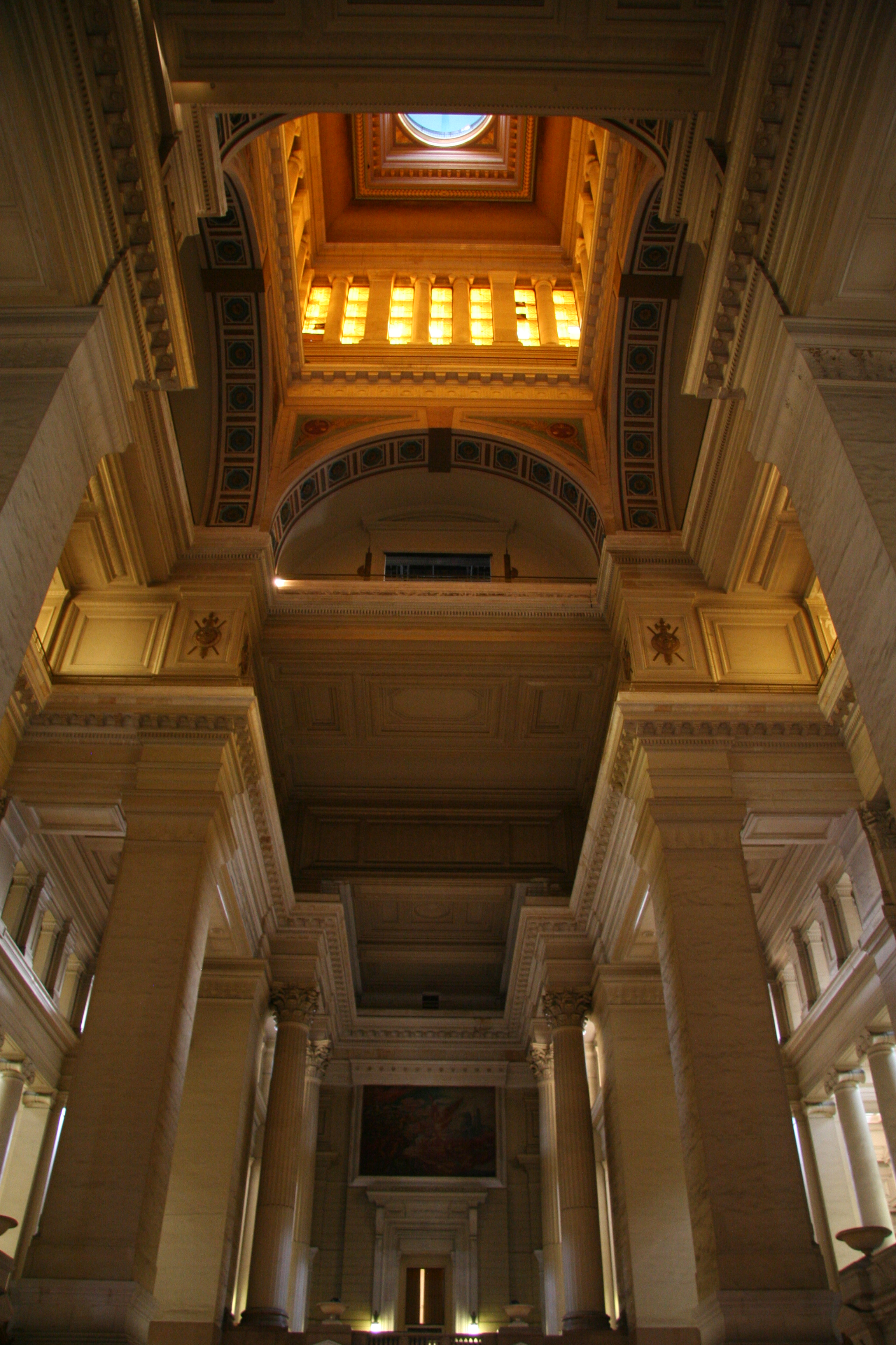 Palais de Justice Interior, Brussels